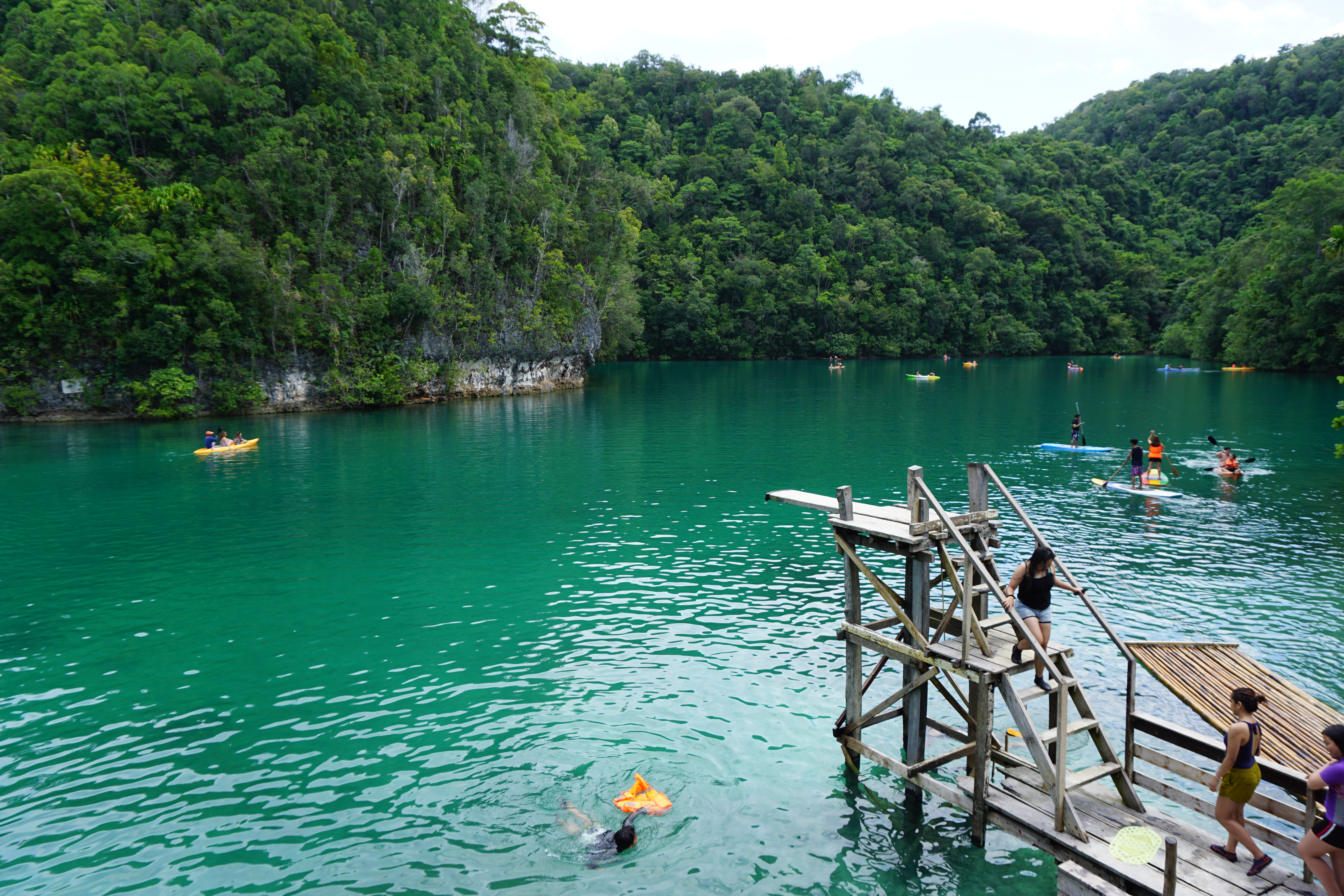 Sugba Lagoon located in Del Carmen, Surigao del Norte, and it is on of the tourist attractions.